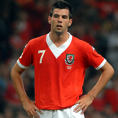 Millennium Stadium, Cardiff, Wales, UK, Football (soccer) player Joe Ledley in action for Wales against Germany during the EURO 2008 qualifying tournament